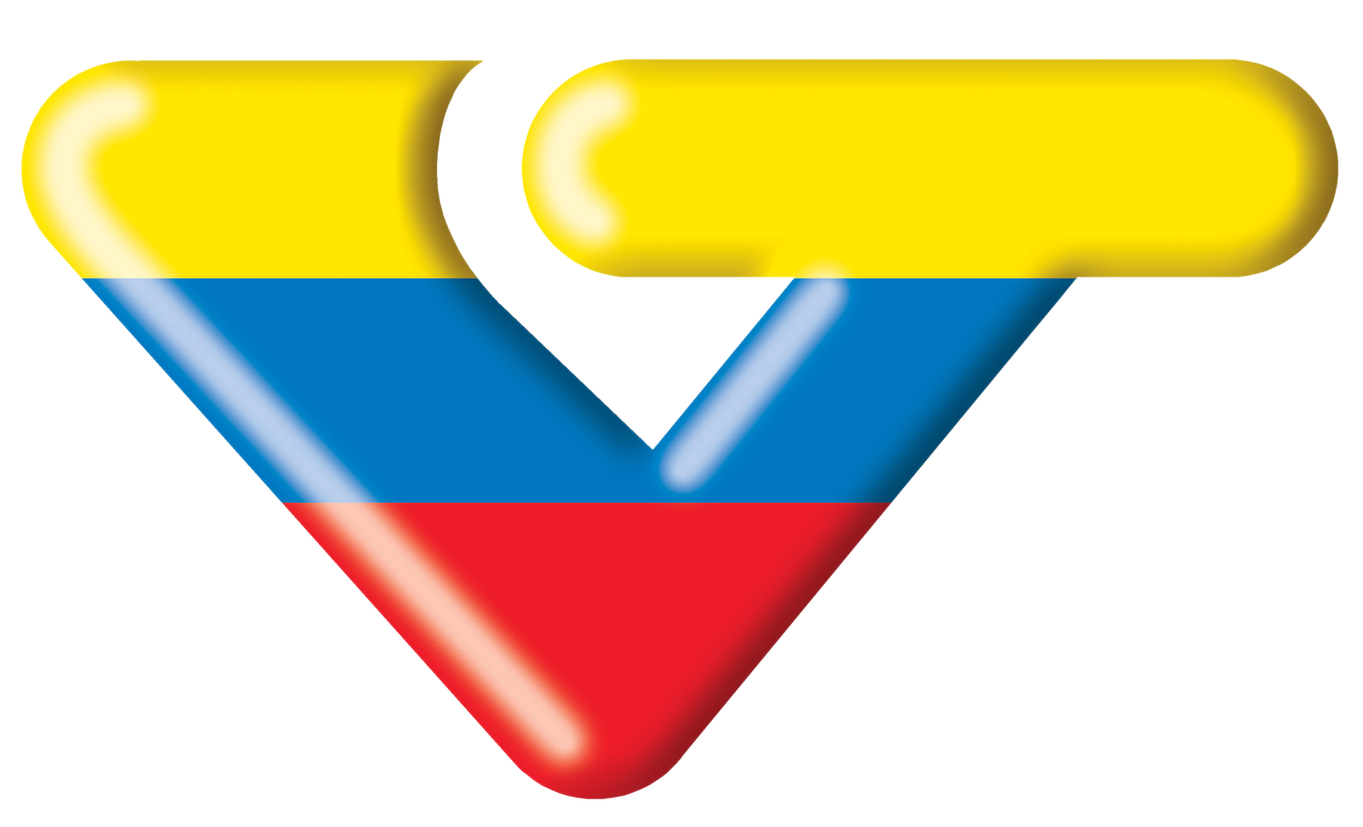 VTV logo,tv channel of Venezuela